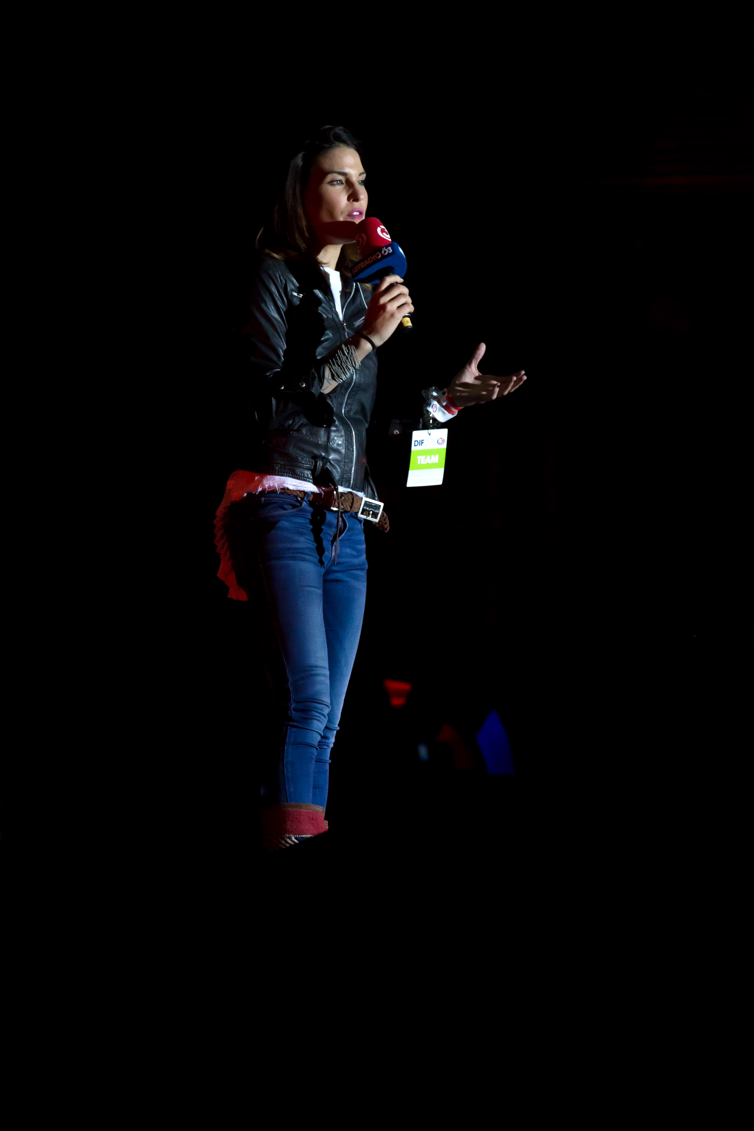 Elke Lichtenegger as presenter at Donauinselfest 2015 in Vienna, Austria